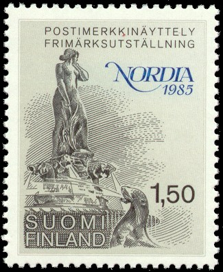 Postage stamp depicting the Havis Amanda statue in Helsinki (by Ville Vallgren)